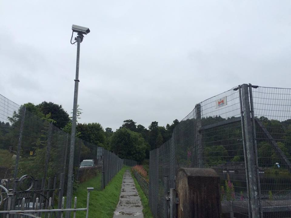 Security fences/camera at Mugdock Reservoir